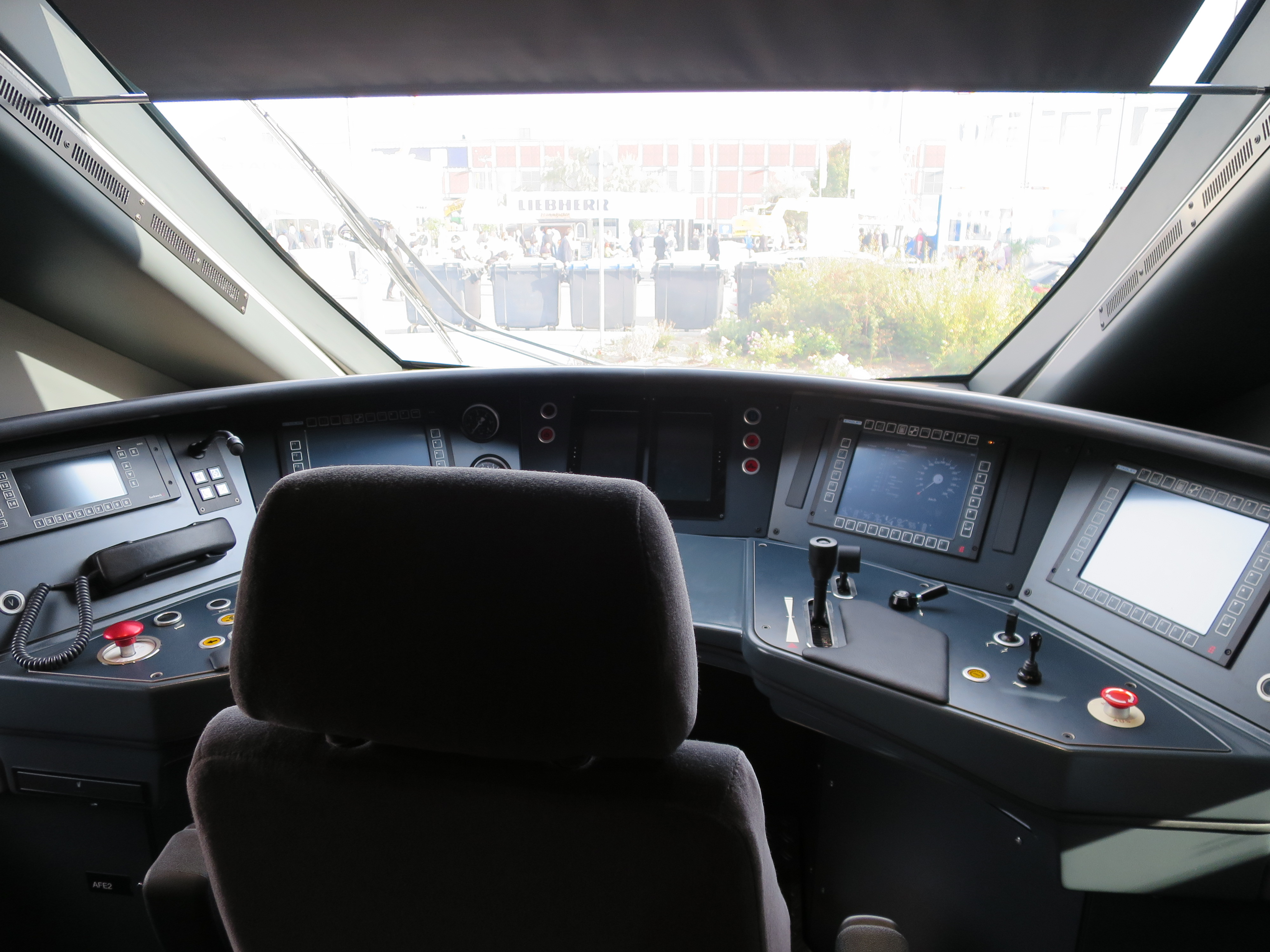 InnoTrans 2016 The making of this document was supported by Wikimedia Polska Association, within Wikigrant no. WG 2016-35.